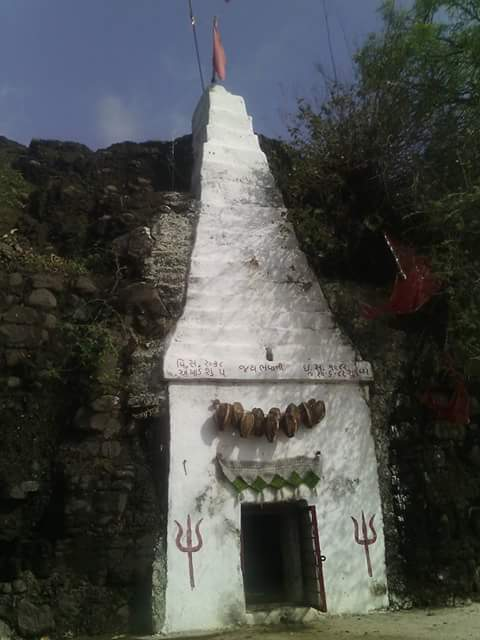 Maa Bhavani Temple at Und Riverbank,Makaji Meghpar